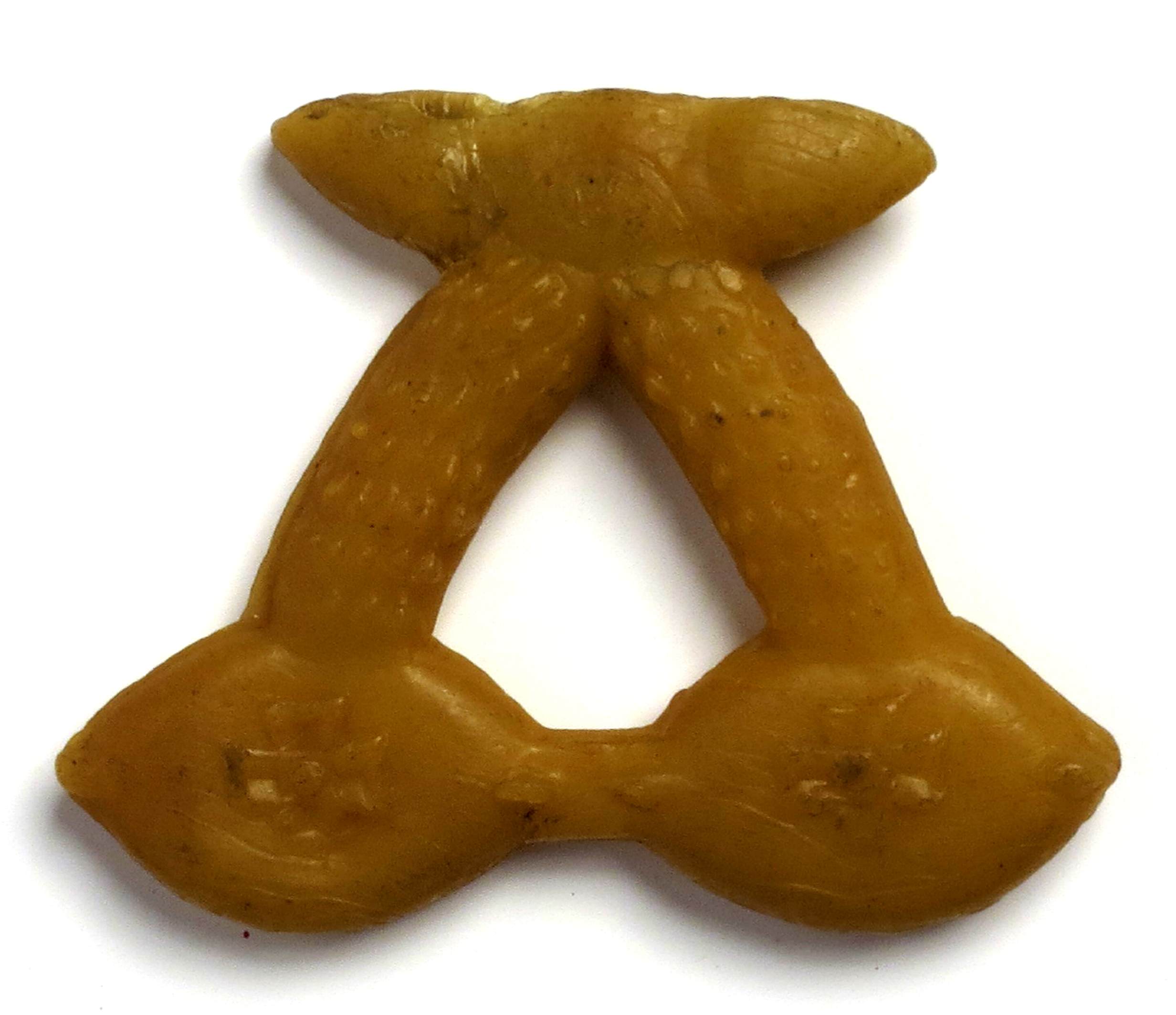 Object located in National Ethnographic Museum in Warsaw as a part of the European collection. Ex-voto from wax, imagining human eyes. Late XIX century. Slovakia.